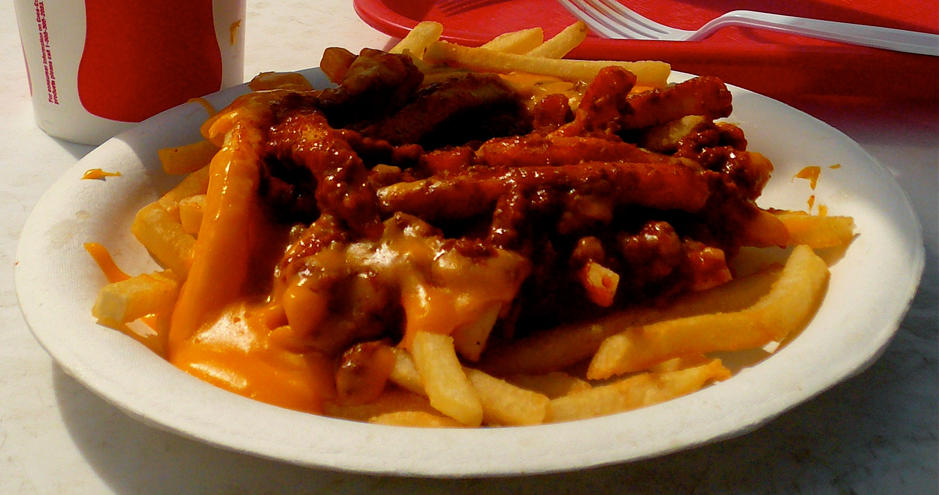 Chili cheese fries